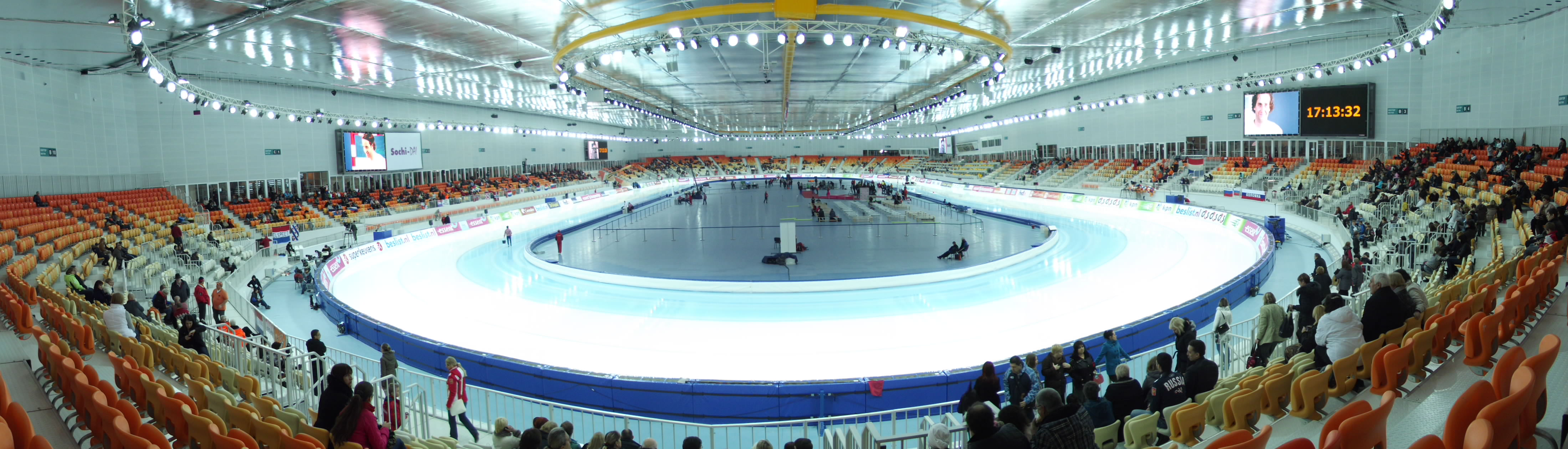 2013 World Single Distance Speed Skating Championships